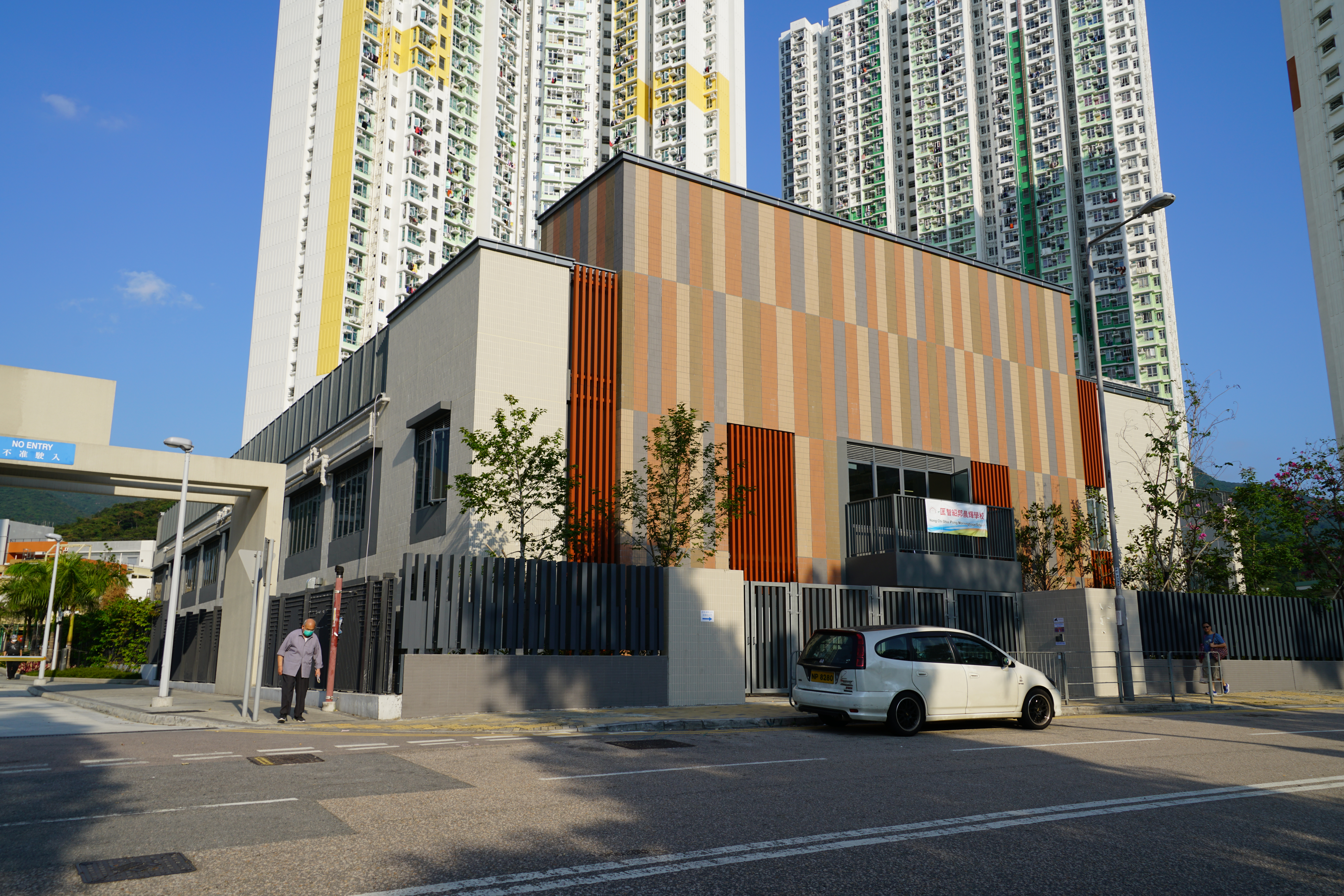 Hong Chi Shiu Pong Morninghope School, Hong Kong.